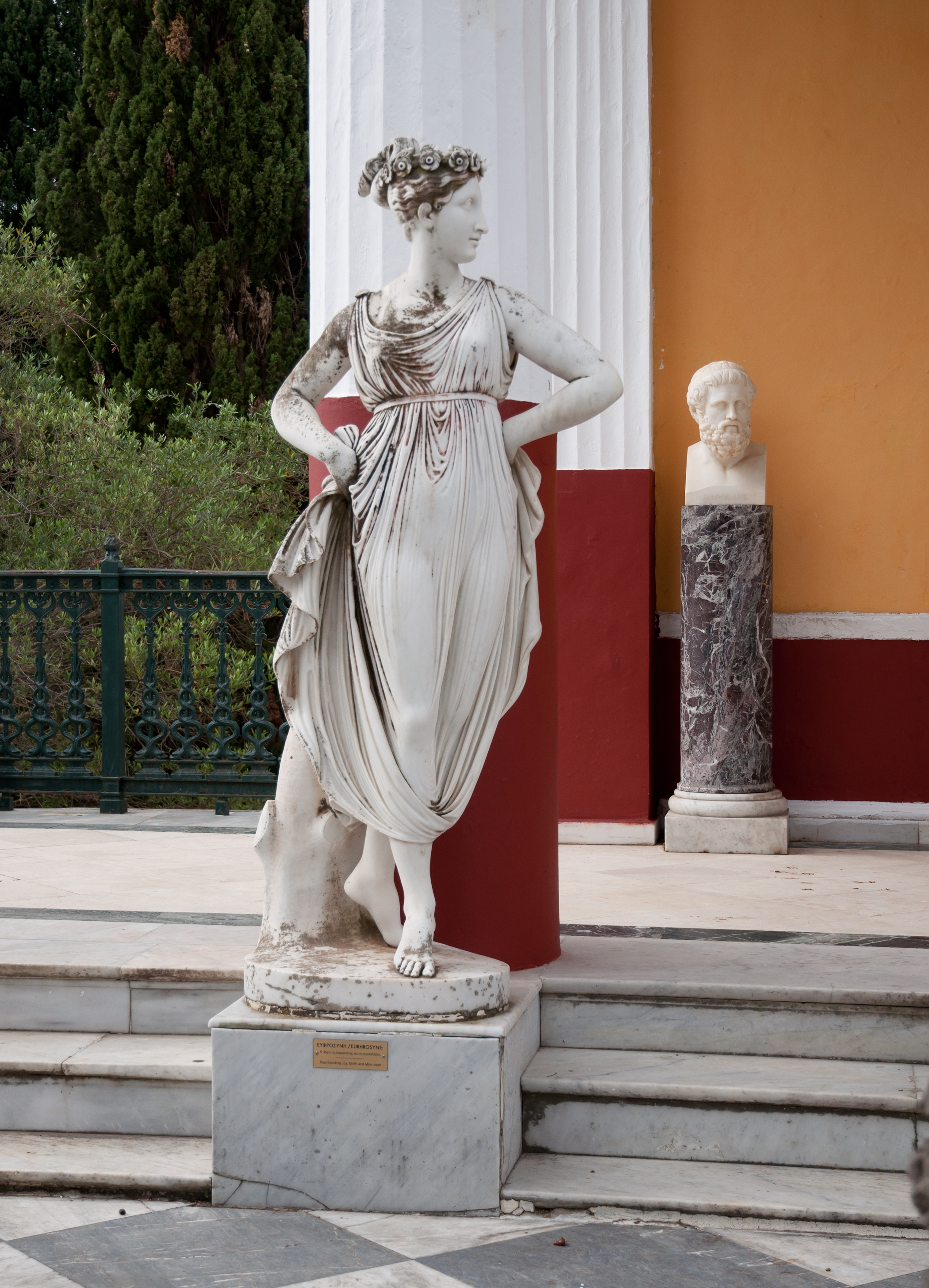 Statue of Euphrosyne, one of the "Three Graces", Goddess of Joy, Mirth and Merriment. Achilleion palace, Corfu island, Greece. A bust of Sophocles is in the background.